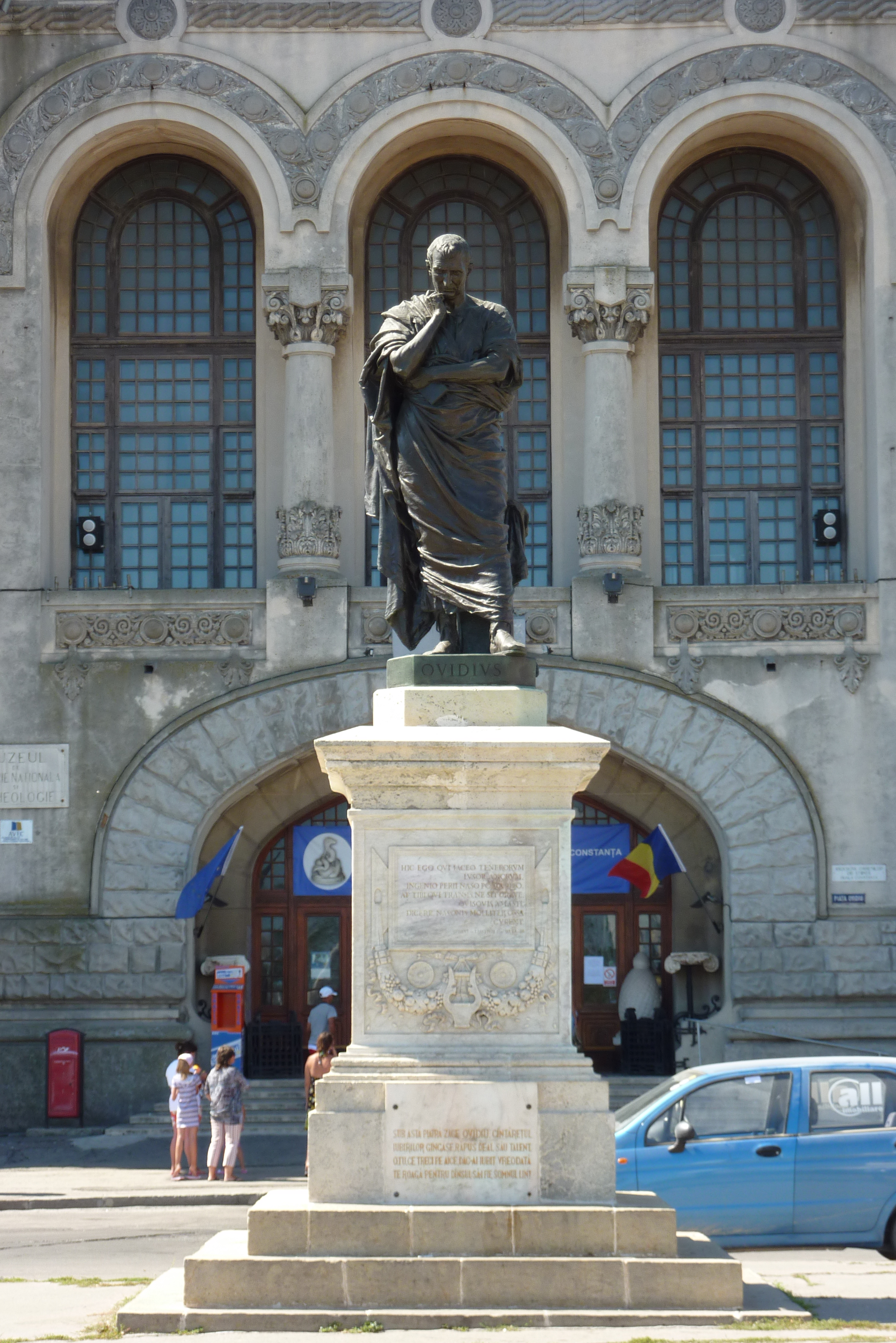 The statue of Ovid in front of the National History Museum in Constantza, Romania.